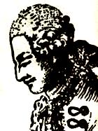 Engraving of Zaharije Orfelin (1726–1785), 18th-century Serbian Baroque writer, engraver and polymath.